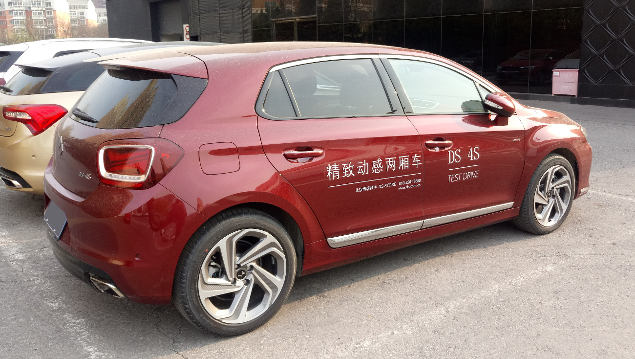 DS 4S photographed in Beijing, China.